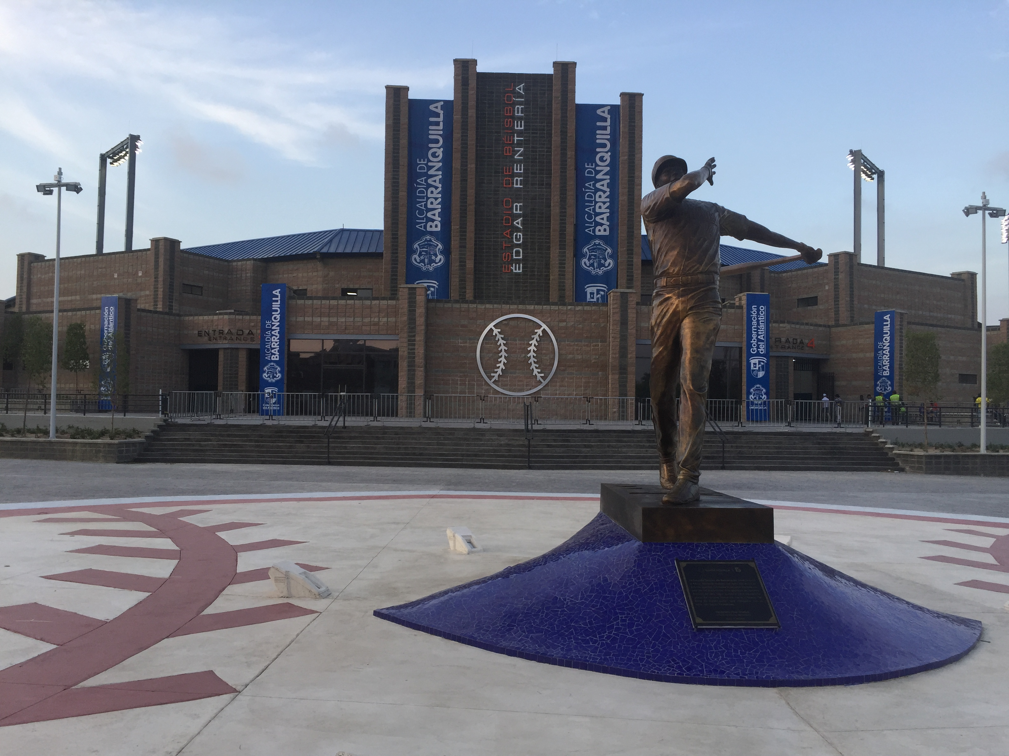 Facade stadium Edgar Renteria